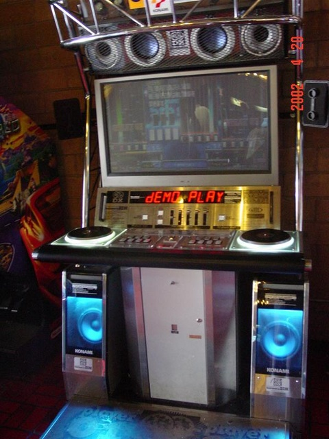 Cabinet of beatmaniaIIDX.